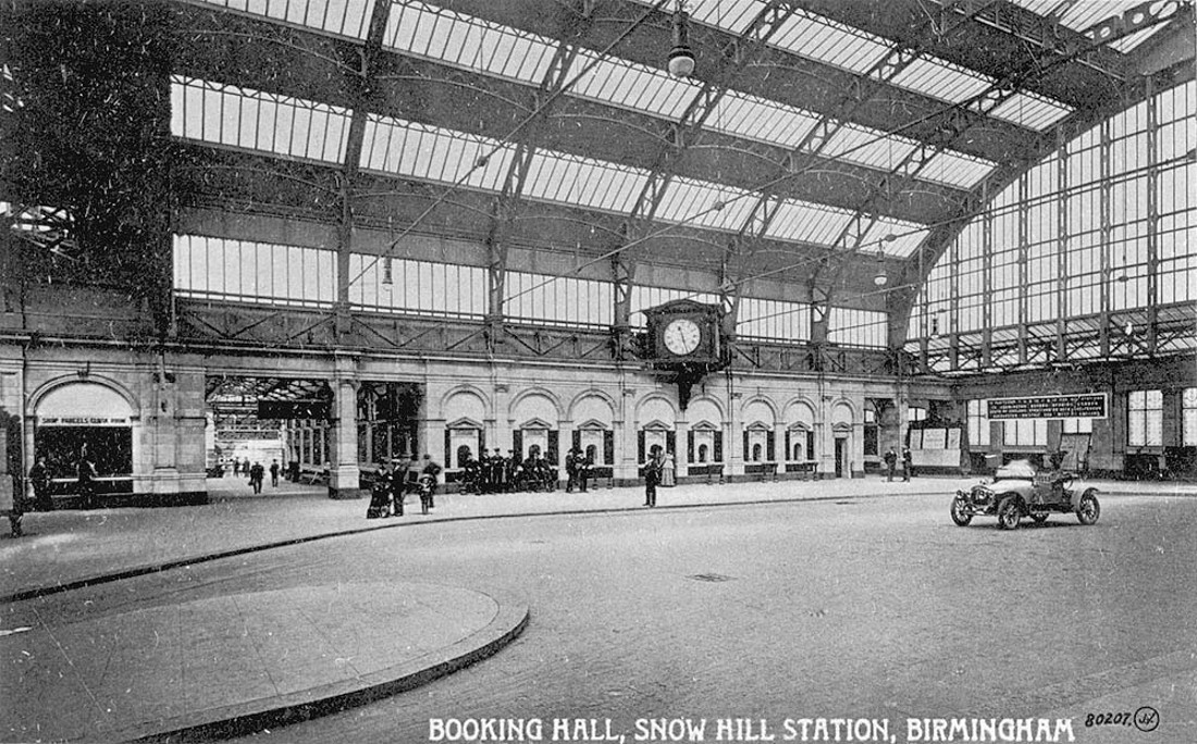 View of the Booking Hall at Birmingham Snow Hill station in 1914.